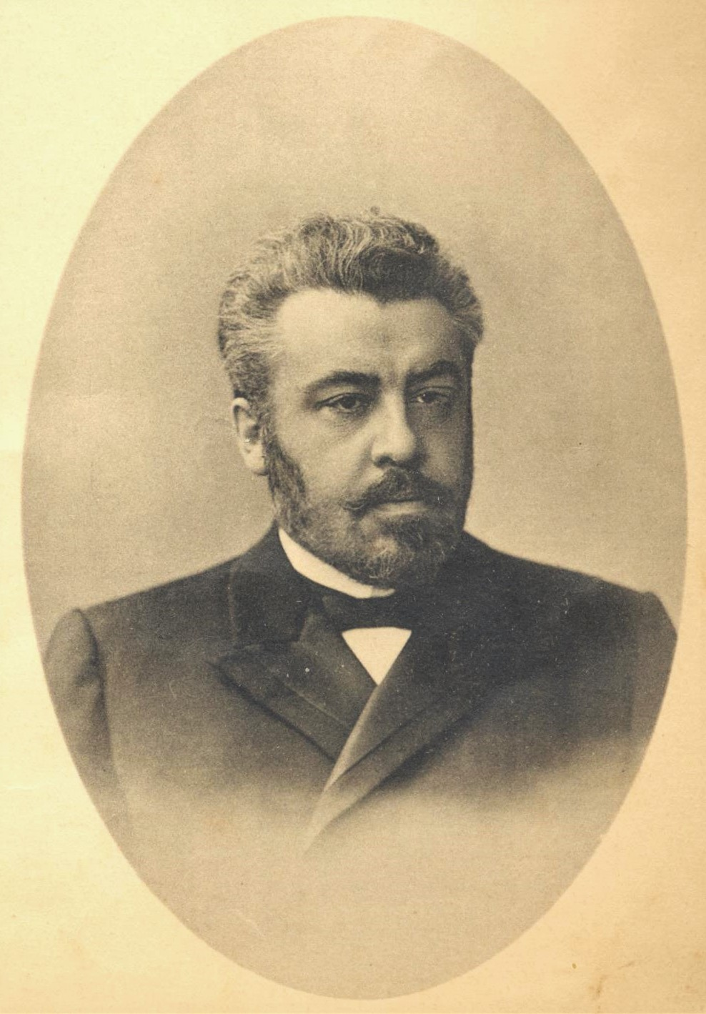 lexander Apollonovich Manuilov (1861-1929), Russian economist, Professor, Minister of education of the Provisional government (1917).